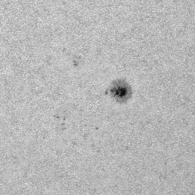 Only one small discrete sunspot group visible today. AR2386 - there is another smaller scattered group, AR 2387, visible but not such an attractive target. Some small pores are visible close to the sunspot and lots of granulations in the background - to give an indication of scale - each granulation is 1000km across. You can see a light bridge dividing the umbra into 2. AR 2386 is classified as Hsx H – A visually unipolar sunspot group with penumbra. s – small, symmetric. Largest spot has mature, dark, filamentary penumbra of circular or elliptical shape with little irregularity to the border. The north-south diameter across the penumbra is less or equal than 2.5 degrees. x – undefined for unipolar groups. Magnified view is with TeleVue Barlow x3 lens yielding a focal length of 2700mm. Equinox 120ED scope with Baader Herschel wedge and Baader UV/IR cut filter. Hinode solar autoguider and Ioptron ZEQ25GT mount. Skyris 274m CCD camera. Technical note - cleaned CCD sensor and Barlow with arctic butterfly static brush - really seemed to help - no repair brushes needed in PS.